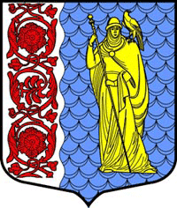 Slantsevo rayon (Leningrad oblast), coat of arms